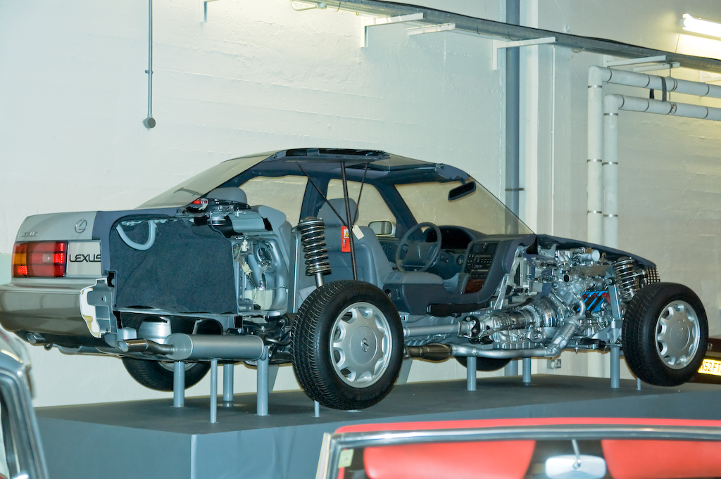 To view more images from this show please click here